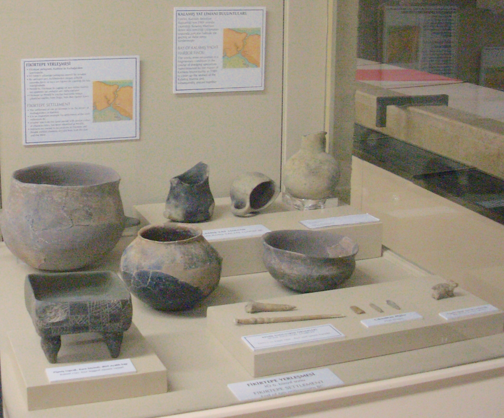 Istanbul Archaeological Museums , Kadıköy